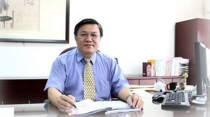 Principal Tsai in NSSH